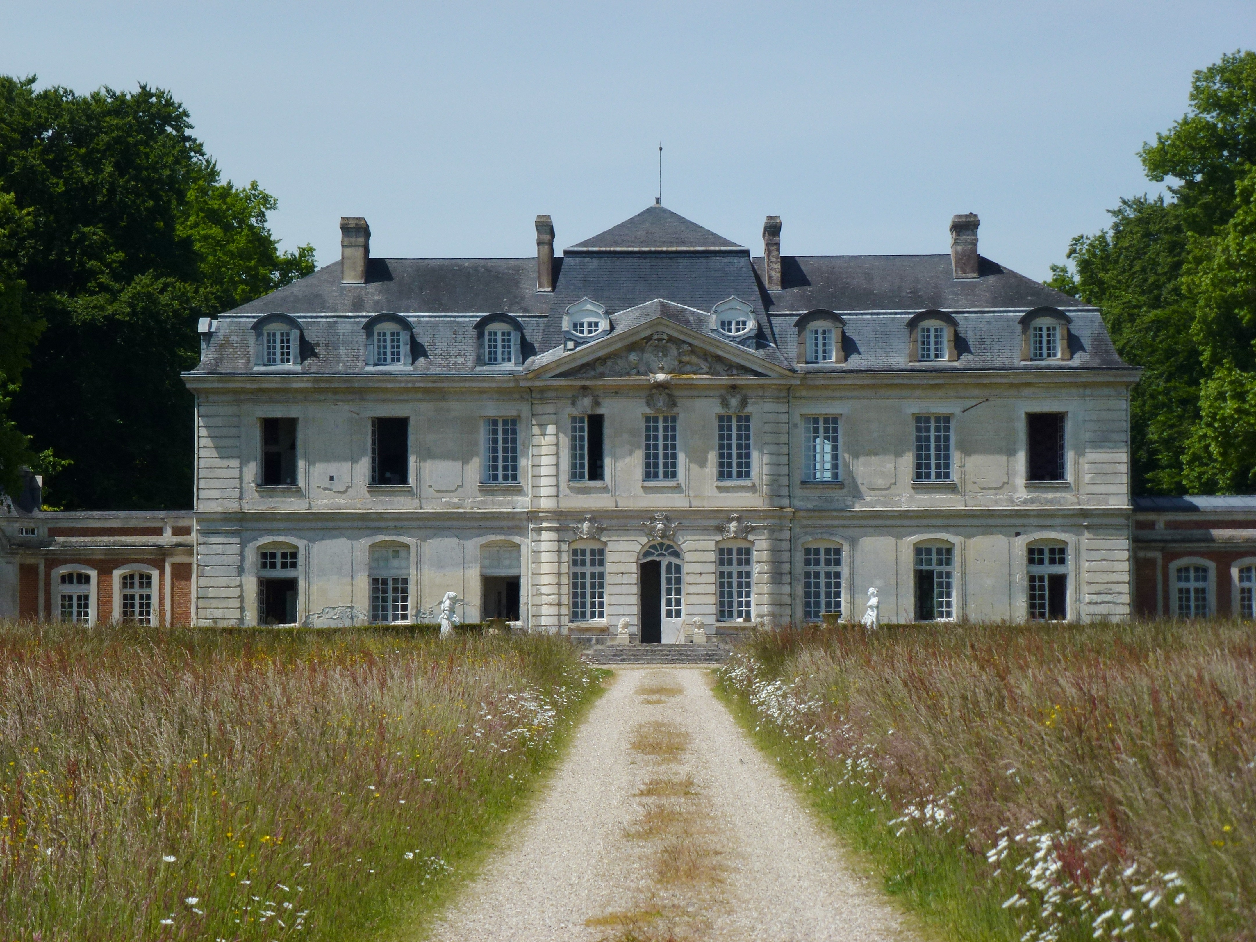 Saint-Georges-du-Vièvre (Eure, Fr) château de Launay This building is en partie classé, en partie inscrit au titre des Monuments Historiques. .